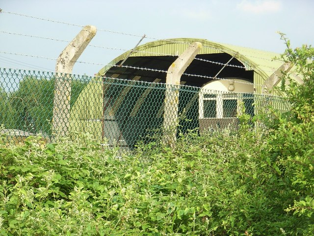 Railway shed Adjacent to the perimeter fence of the depot at Bicester Barracks.